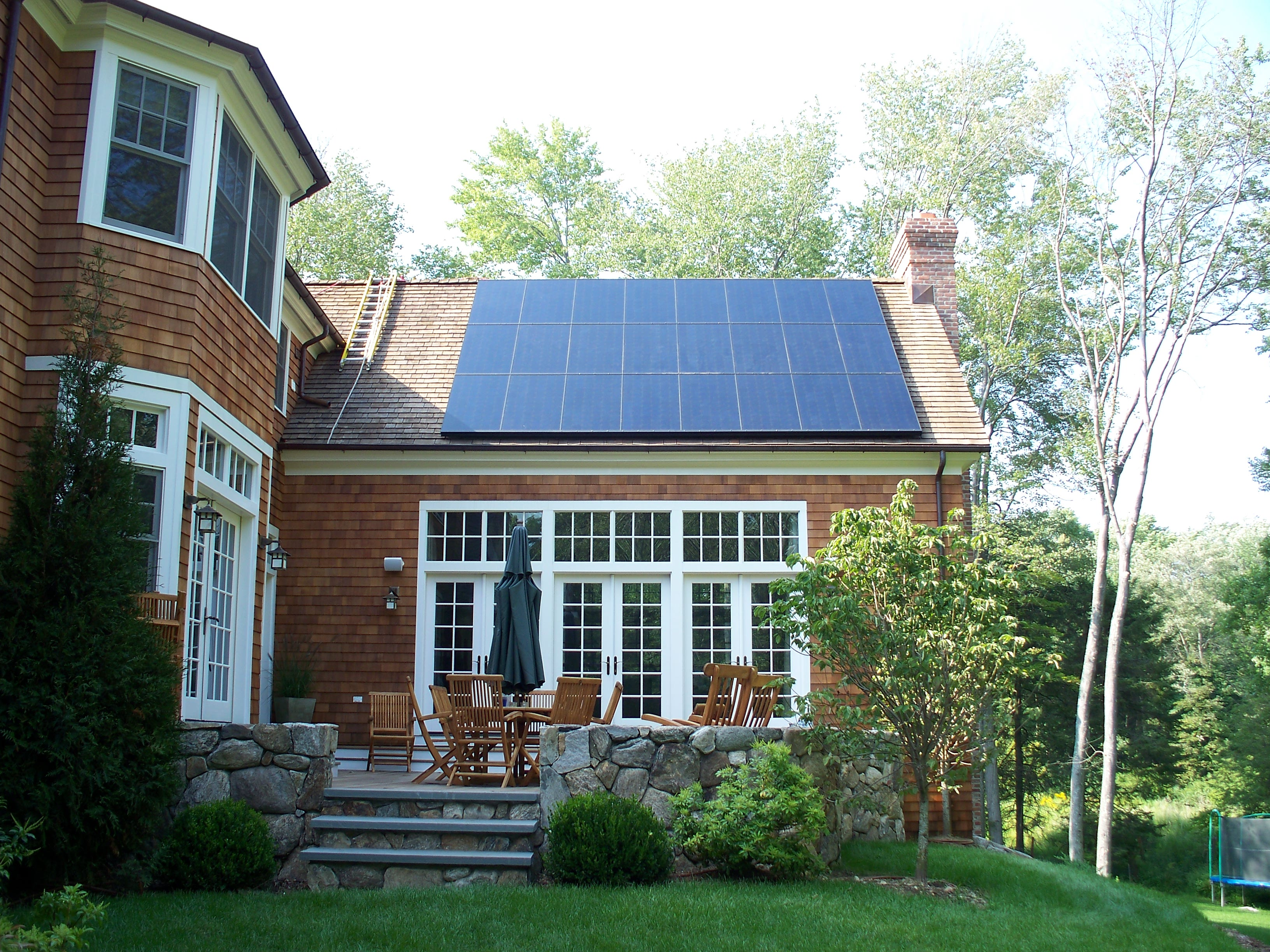 Sunlight Solar Sunpower; SunPower "Intelegant" award winning installation in Westport, Connecticut